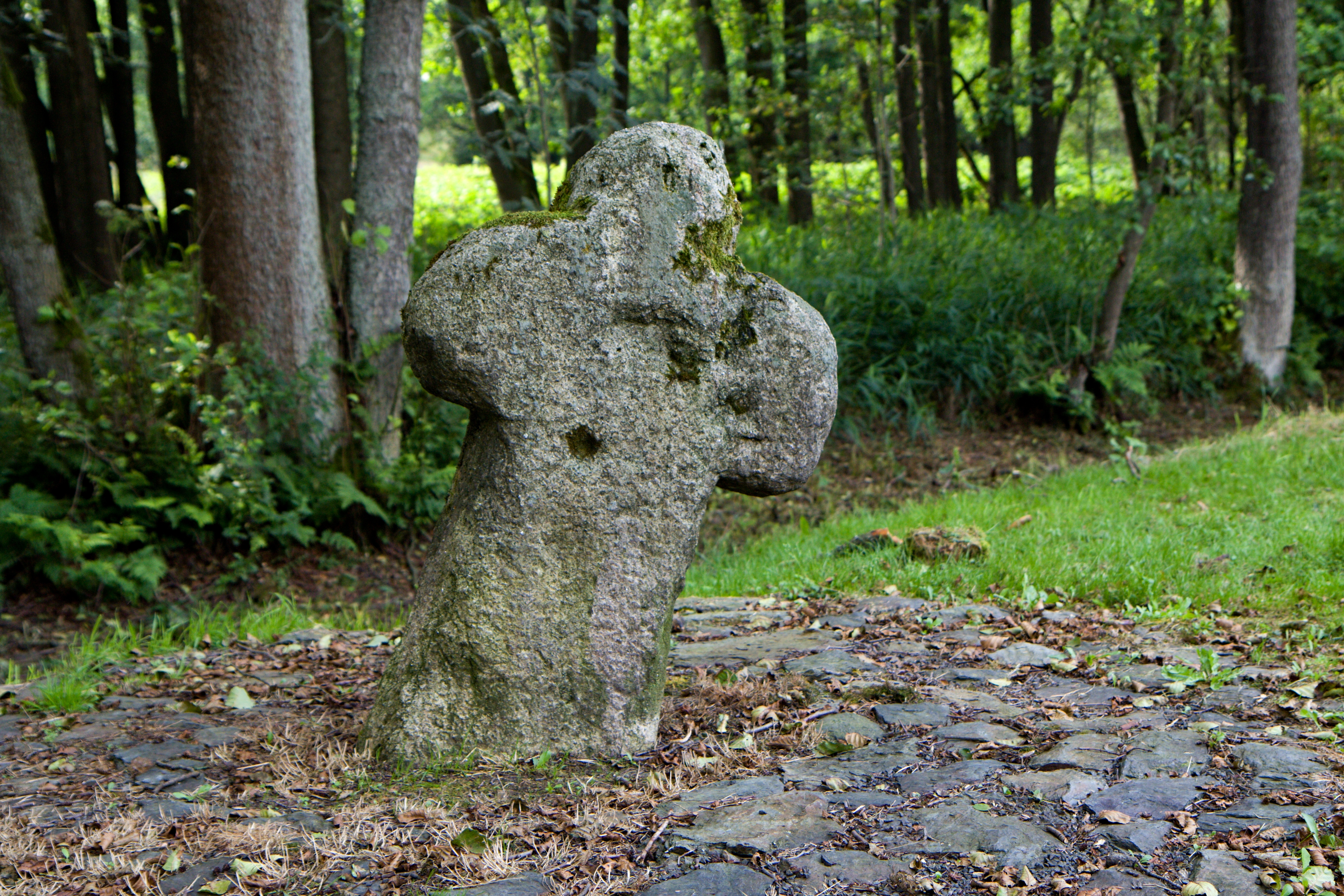 Conciliation cross - Císařský Hamr